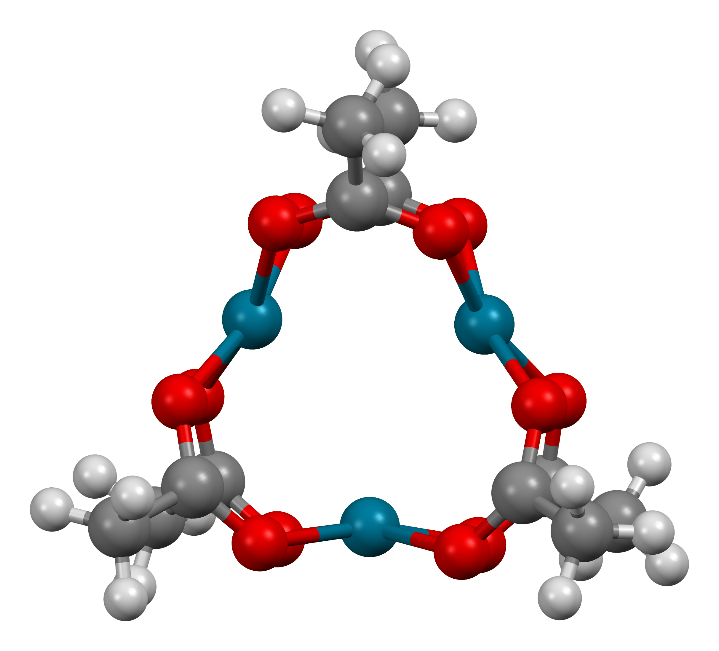 Ball-and-stick model of the cyclic trimeric form of palladium(II) acetate, Pd(OAc)2, as found in the crystal structure of the hydrate reported in I. J. S. Fairlamb, Angew. Chem. Int. Ed. (2015) 54, 10415-10427. Colour code: Carbon, C: grey Hydrogen, H: white Oxygen, O: red Palladium, Pd: greenish-blue Model manipulated and image generated in CCDC Mercury 3.8.